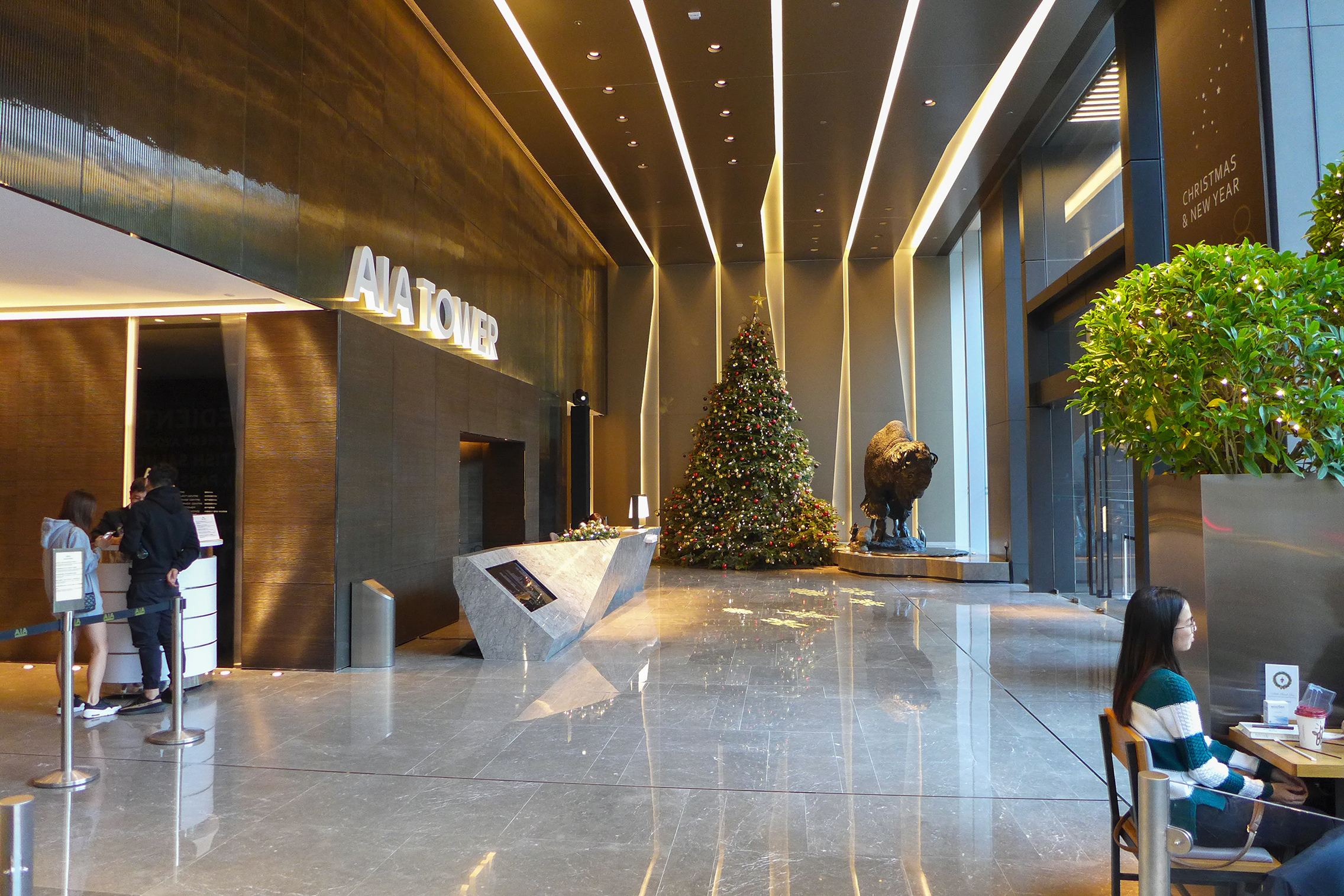 AIA Tower Lobby